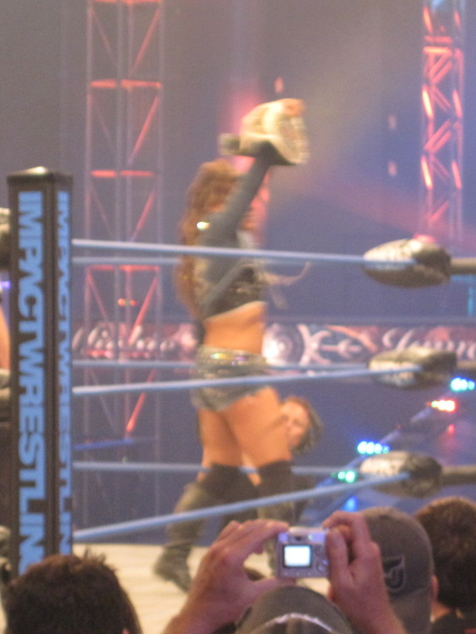 Sunday, June 12, 2011. Universal Orlando